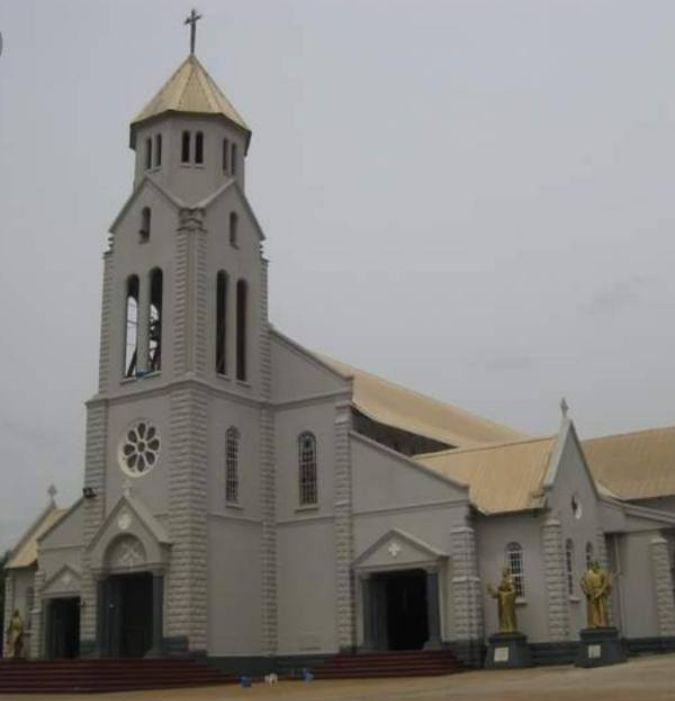 This is only Basilica in Nigeria.